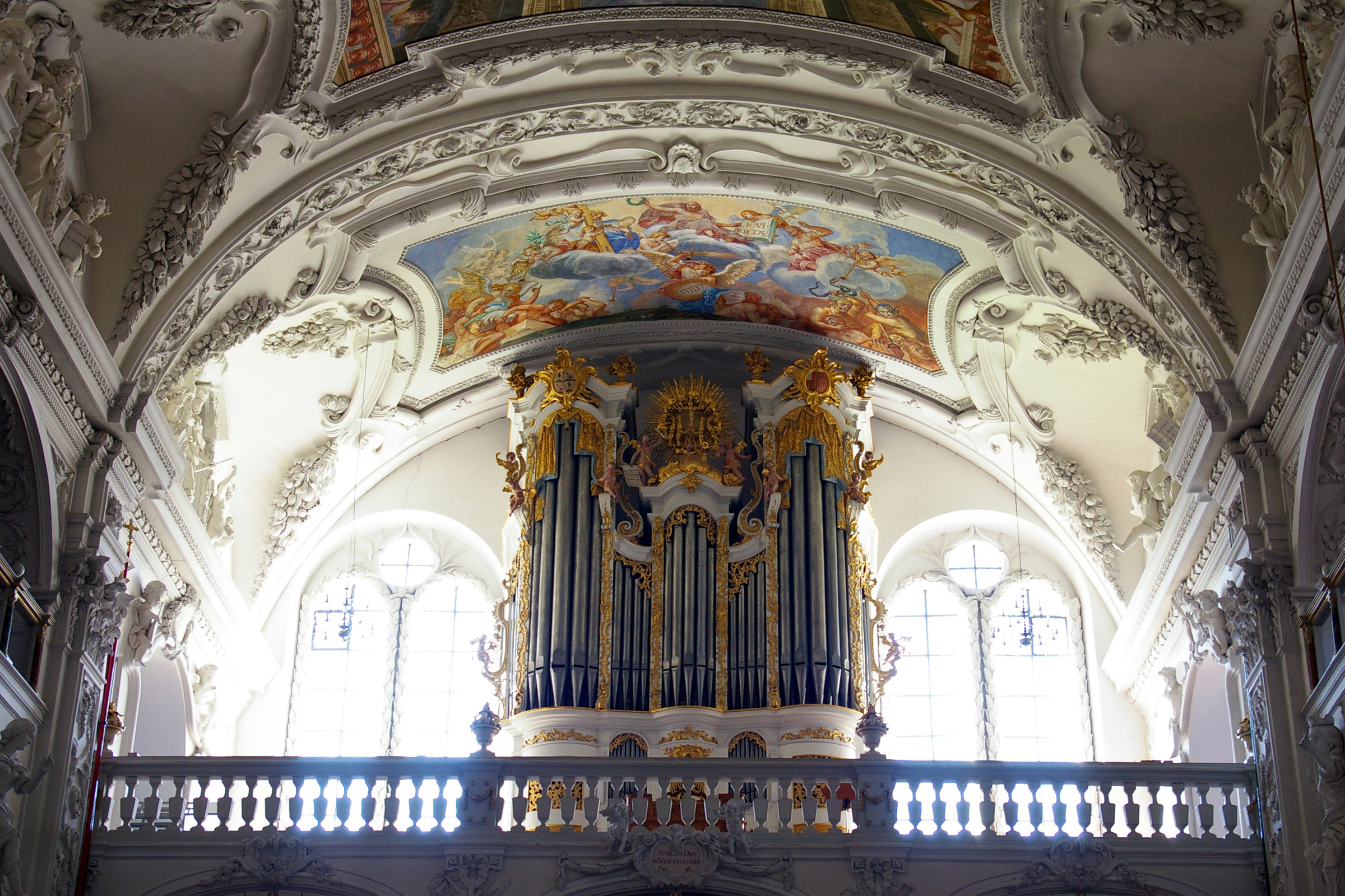 The organ of Monastery Benediktbeuern